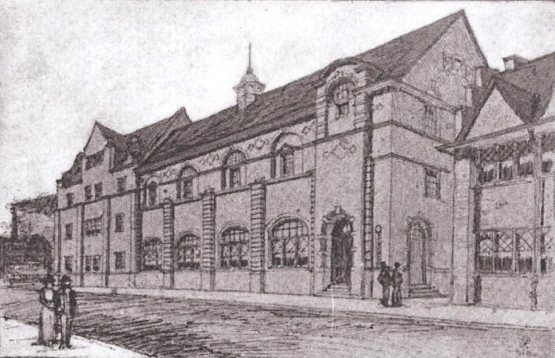 Architectural drawing, "Auditorium and Coffee House at Hull House," Pond and Pond architects